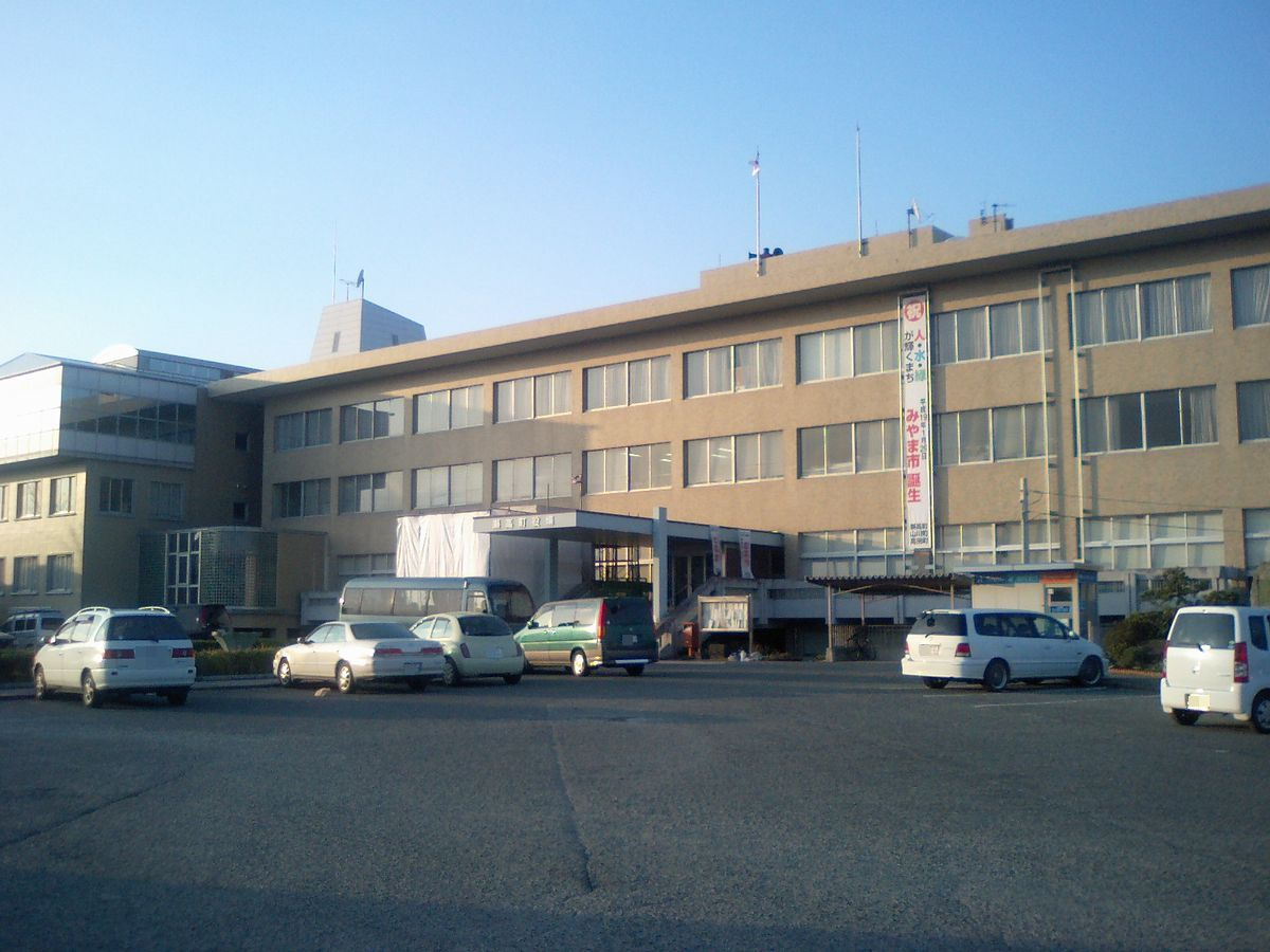 Miyama City Hall in Fukuoka Prefecture, Japan